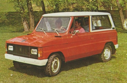 The first generation of small off-road vehicle ARO 10.